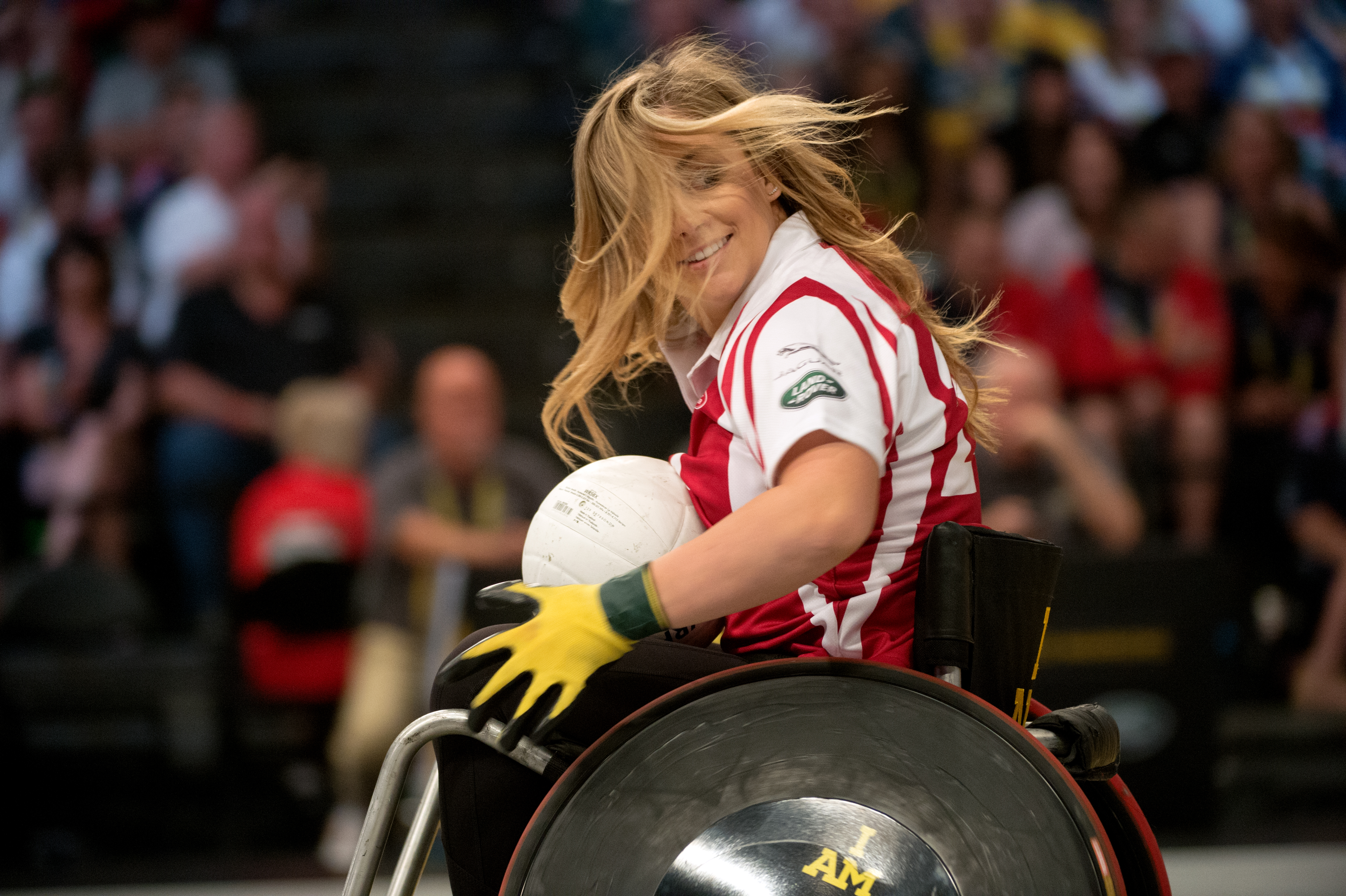 Olympic gold medal gymnast Shawn Johnson plays wheelchair rugby during an exhibition match with Invictus athletes and celebrities during the 2016 Invictus Games in Orlando, Fla. May 11, 2016. (DoD photo Edward Joseph Hersom II)